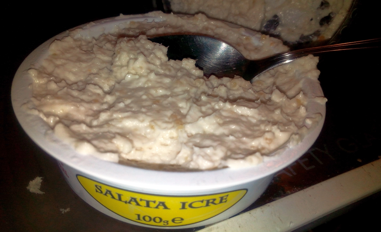 Roumenian tarama from pike eggs